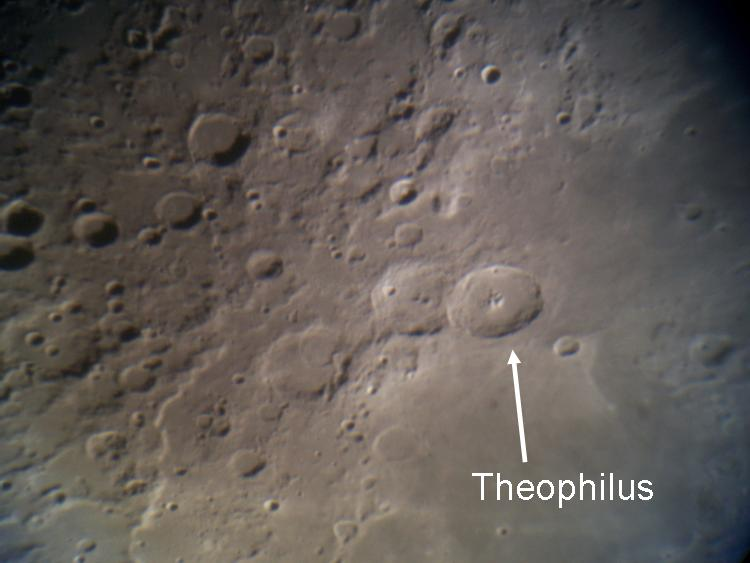 Photo taken by Eric S. Kounce from the 36" Telescope at McDonald Observatory, Texas on October 28, 2006